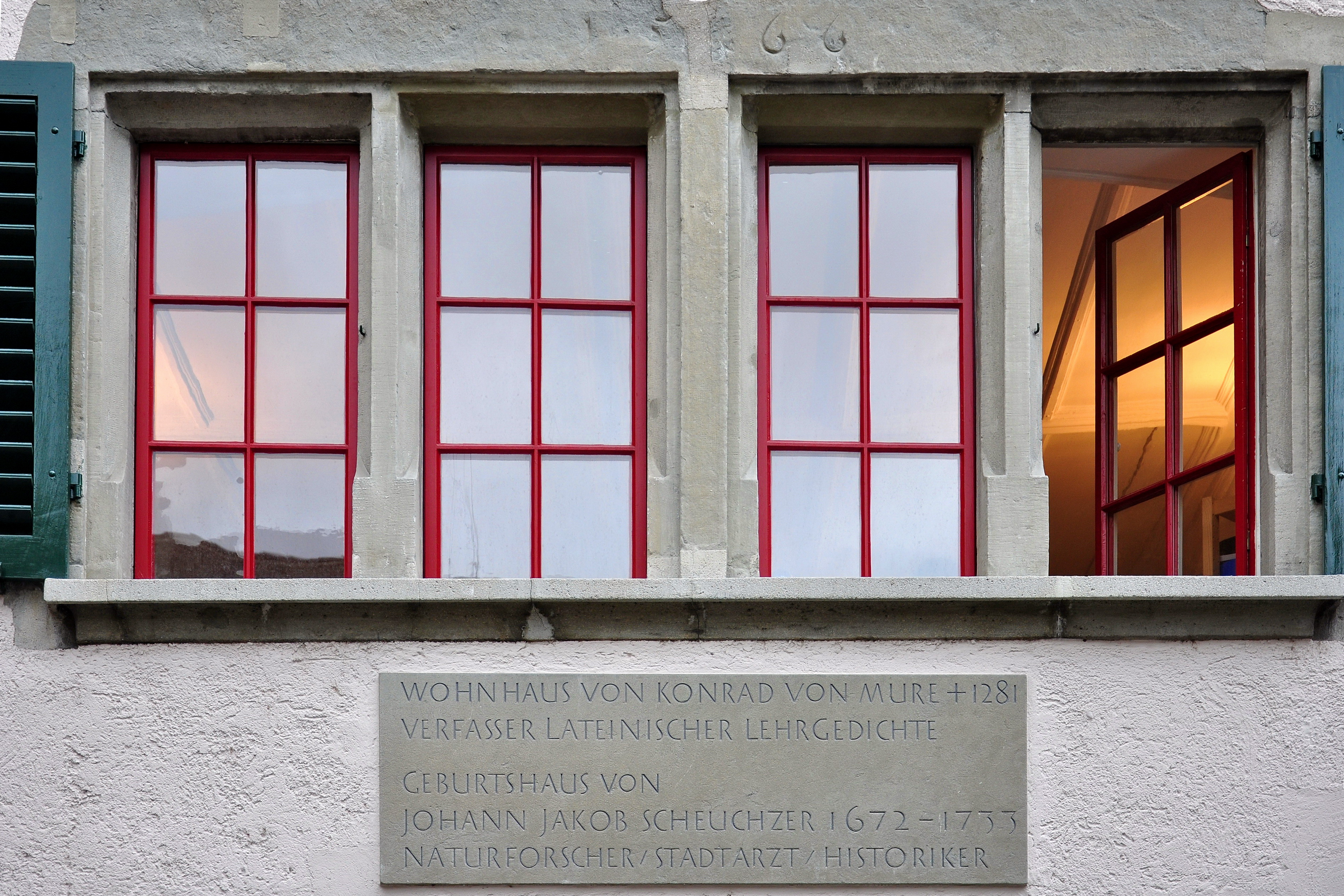 Zürich, Zwingli-Platz (Grossmünster) : Former home of Konrad von Mure († 1280) and the house, where Johann Jakob Scheuchzer (* 1672; † 1733) was born.